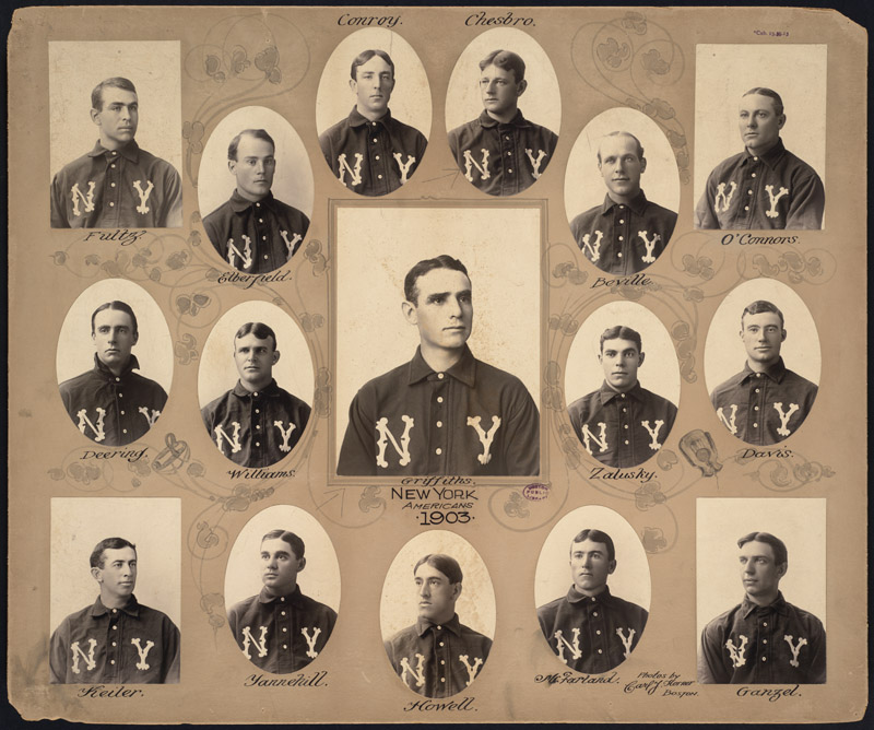 Accession No.: 06_06_000176 Title: New York Highlanders Baseball Team, 1903 Caption: New York Americans. 1903 Creator: Horner, Charles J. Date: 1903 Format: photograph Description: Individual portraits on mount with decorative vignettes in ink wash. In center, portrait of Clark Griffith, pitcher. Top row, left to right, Dave Fultz, outfielder, Kid Elberfield, shortstop, Wid Conroy, third baseman, Jack Chesbro, pitcher, Monte Beville, catcher, Jack O'Connor, catcher. Middle row: John Deering, pitcher, Jimmy Williams, second baseman, Griffith, Jack Zalusky, catcher, Lefty Davis, outfielder. Bottom row: Wee Willie Keeler, Jesse Tannehill, pitcher, Harry Howell, pitcher, Herm McFarland, outfielder, John Ganzel, first baseman. BPL Collection: McGreevey Collection BPL Department: Print Subject: Baseball--History New York Yankees (Baseball team)